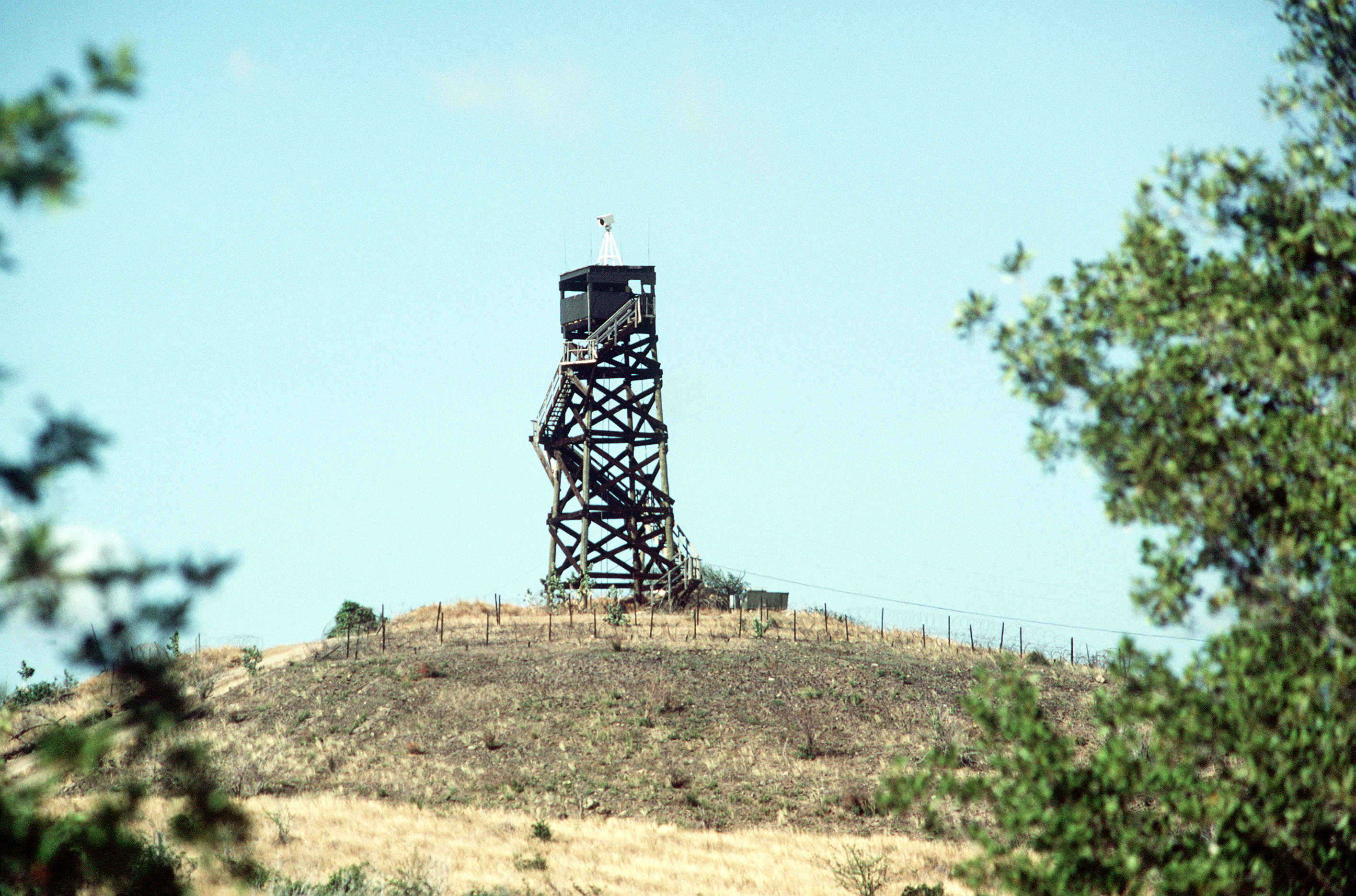 A view of one of the guard towers at Guantanamo Bay naval station. The towers are manned by Ground Defense Force personnel from the station's Marine Barracks.